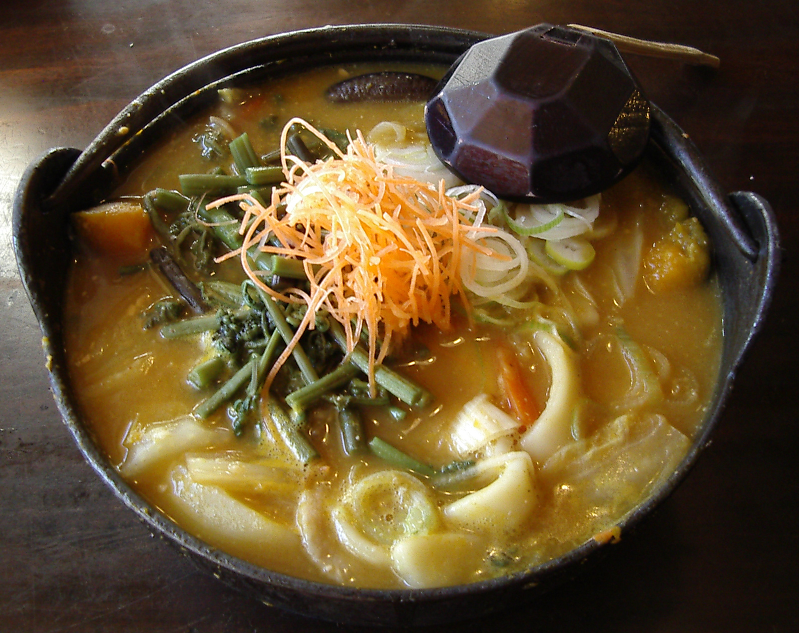 ほうとうの写真。山梨県の小作で撮影。 Houtou, a traditional dish in Yamanashi, Japan. It contains several vegetables, some meat, and wide noodle.